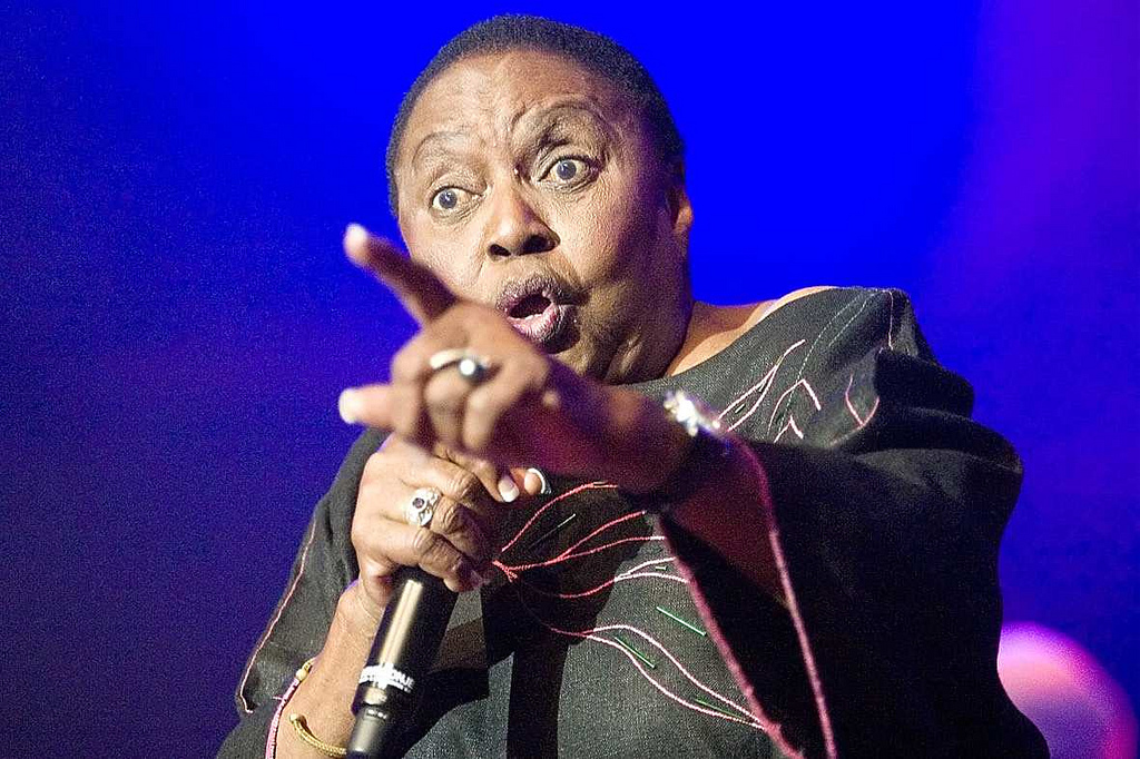 Miriam Makeba (* 4. März 1932, † 10. November 2008) in a performance